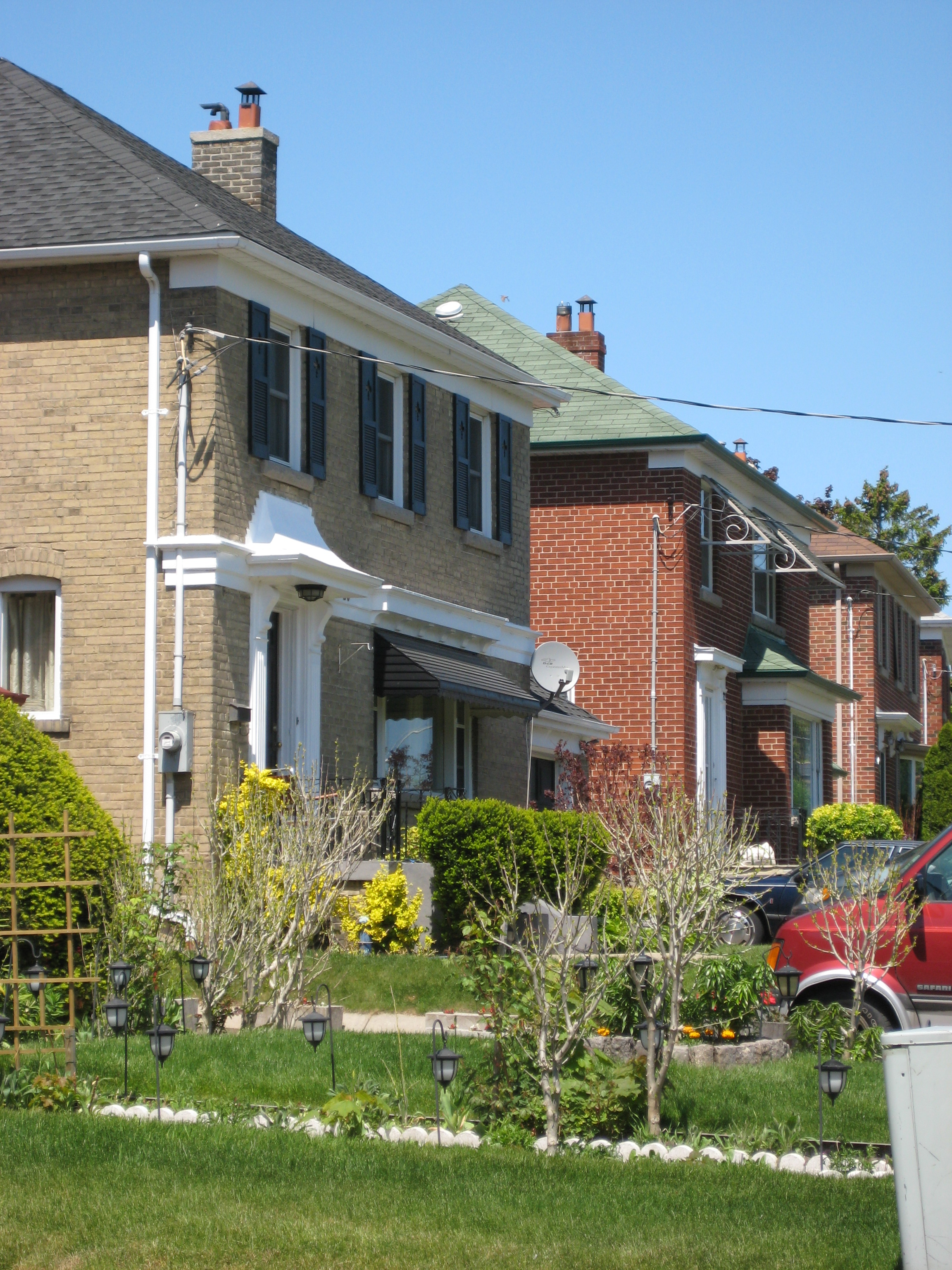 Houses in Cliffside, Toronto